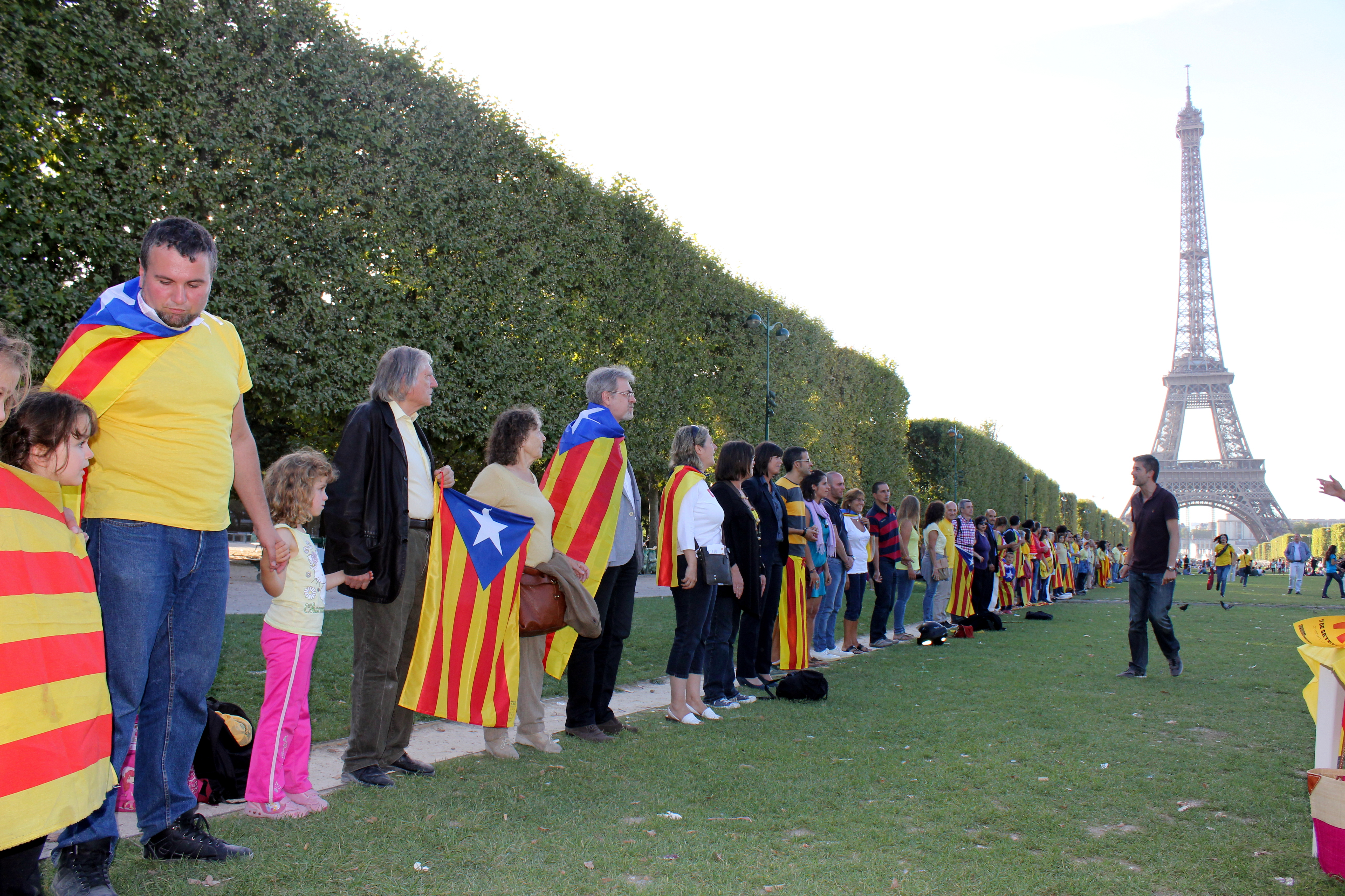 Catalan Way in Paris, on 2 September 2013